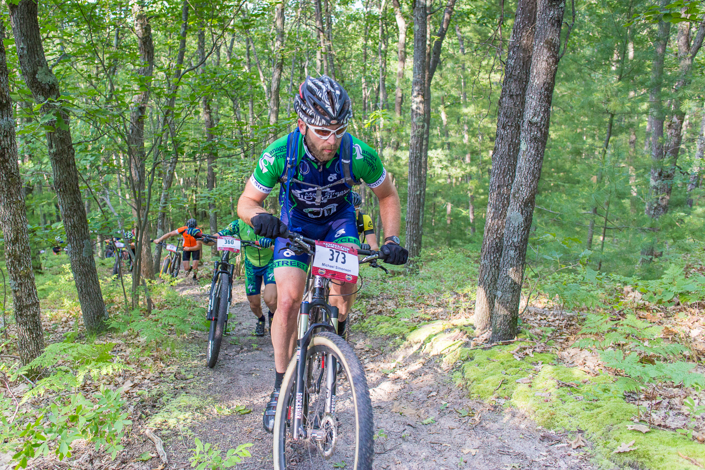 Competitors climbing on the Lumberjack 100 mountain bike (MTB) race course. (Photo credit: Jack Kunnen, Jack Kunnen Photography)